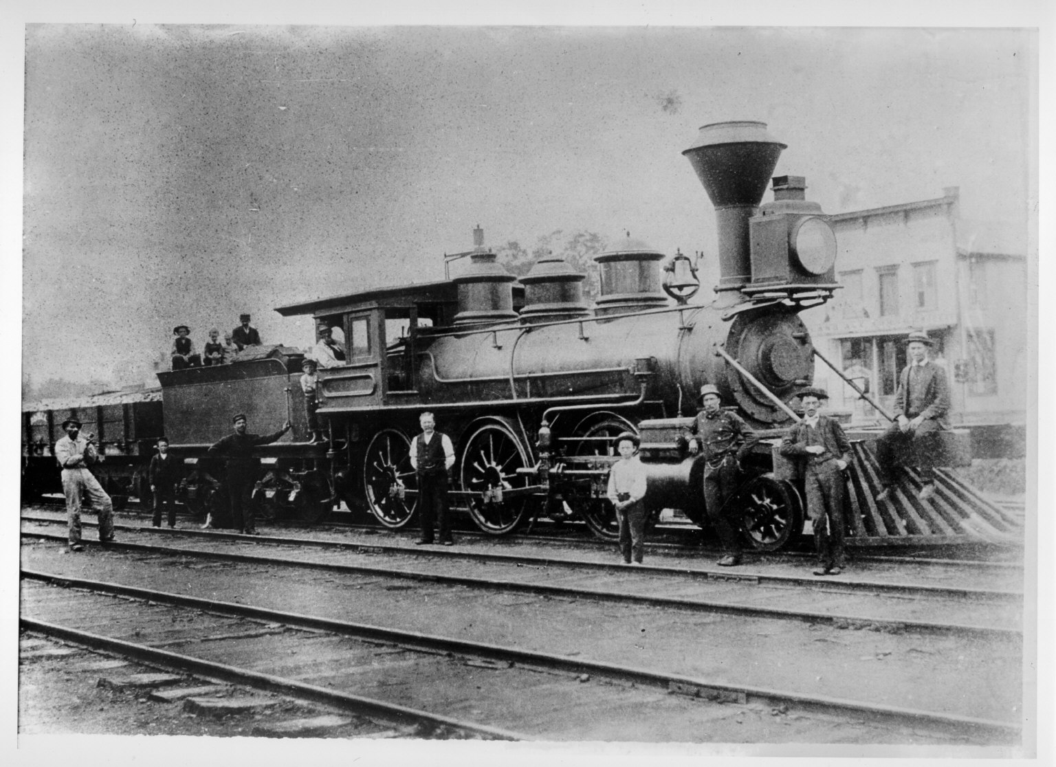 Collection: De Forest Douglas Diver Railroad Photographs, ca. 1870 - 1948, Cornell University Library Title: O&W Engine #103 Place: New York (State) Medium: Gelatin silver print Notes: Railroad: New York, Ontario and Western Railway (O&W); Engine #103; Builder: Rhode Island; Year 1873; Wheels 2-6-0 Provenance: Diver, De Forest Douglas, 1878-1958, Collector Finding Aid: There are no known U.S. copyright restrictions on this image. The digital file is owned by the Cornell University Library which is making it freely available with the request that, when possible, the Library be credited as its source.